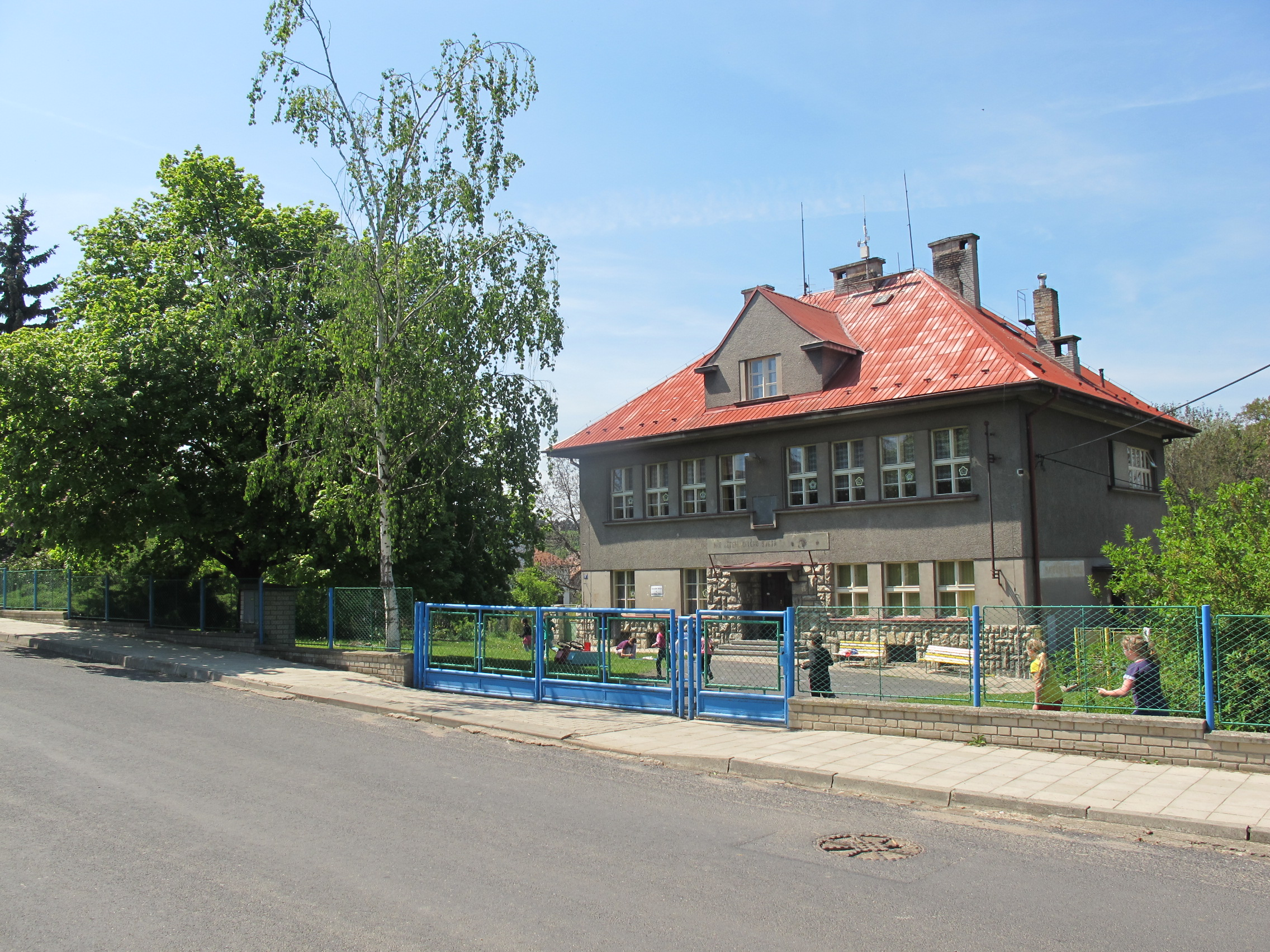 School in Nové Sedlo